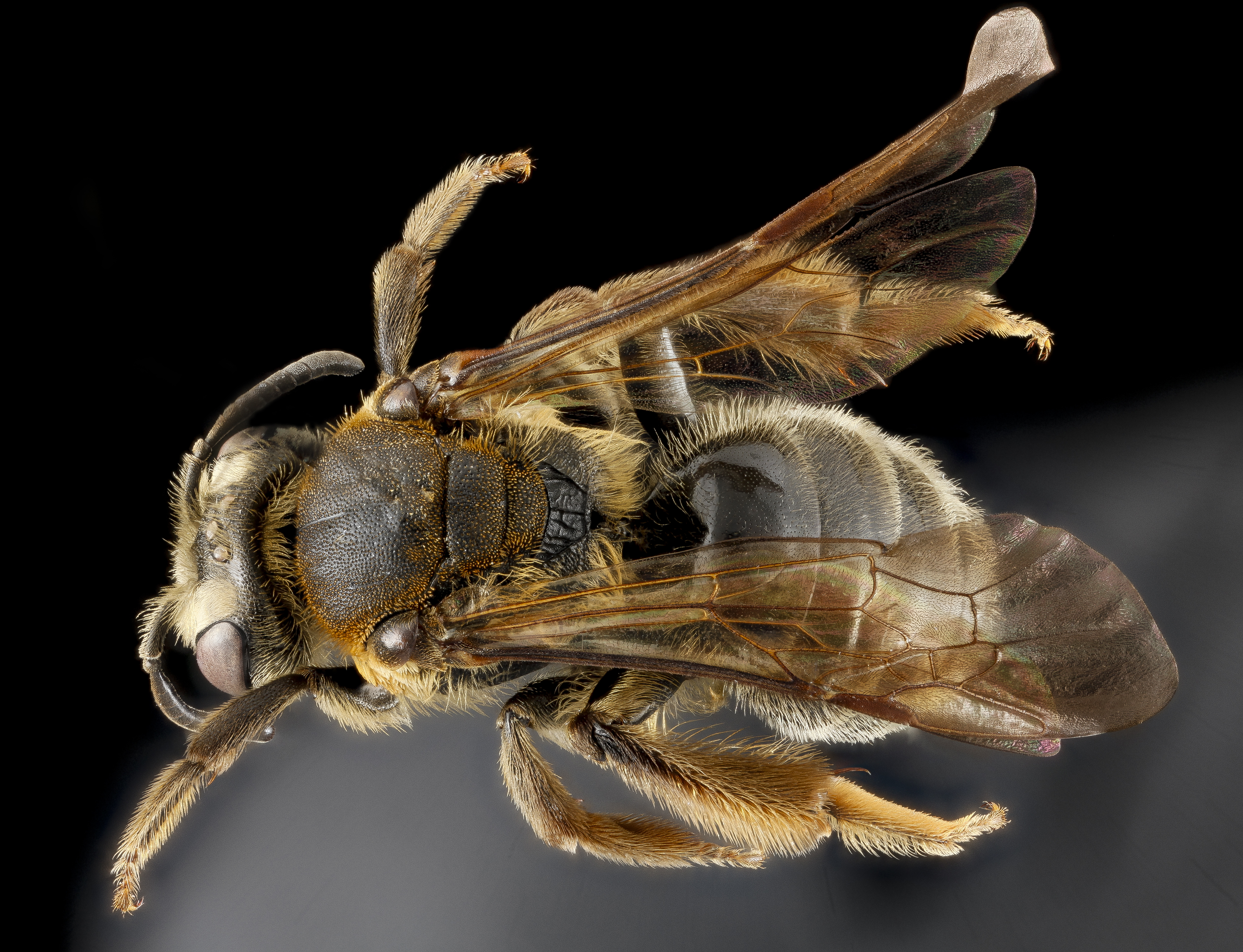 Maine, Collected by Sara Bushman